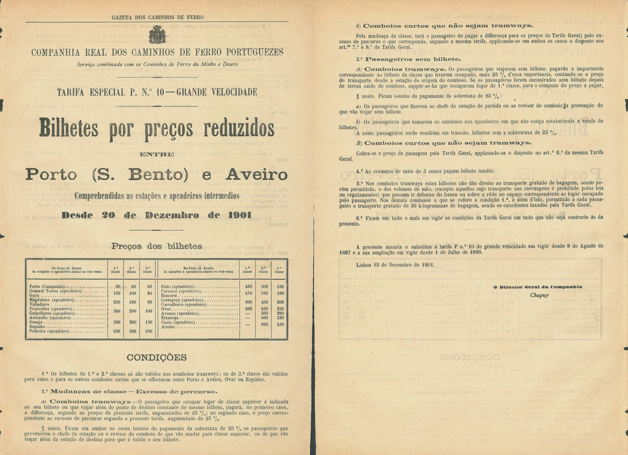 Advertisement of the Companhia Real dos Caminhos de Ferro Portugueses (Royal Company of the Portuguese Railways), showing the special tariff n.º 10, for tickets at reduced prices between the railway stations of Porto - São Bento and Aveiro. This image was published on the Gazeta dos Caminhos de Ferro magazine no. 337, of the 1st January 1902, and scanned by the Hemeroteca Municipal de Lisboa.